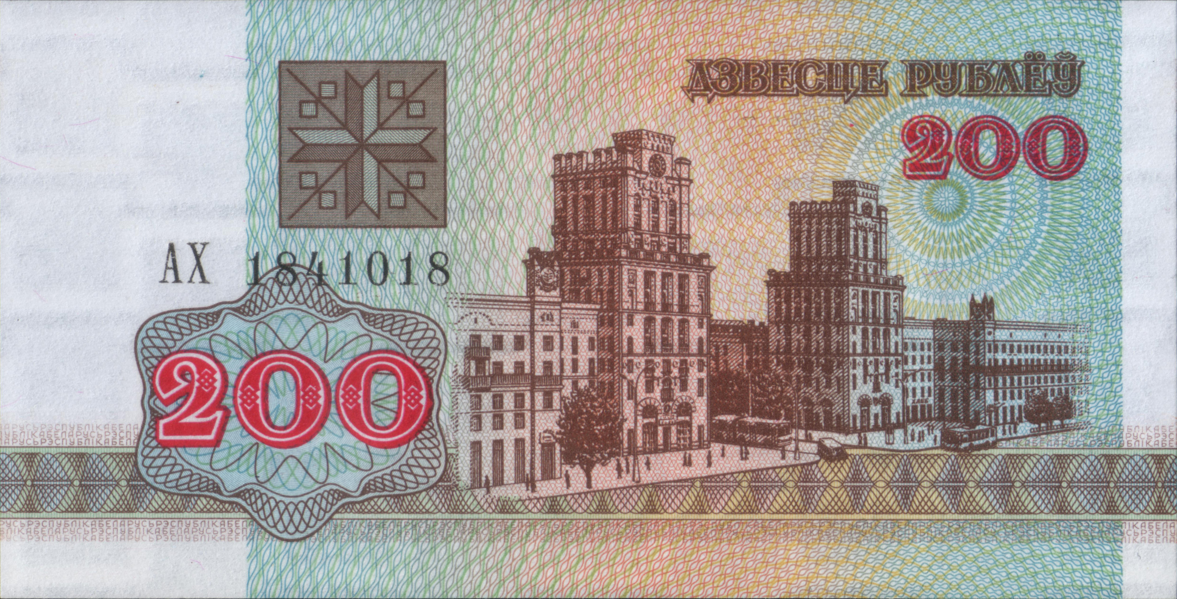 200 roubles of Belarus (1992)